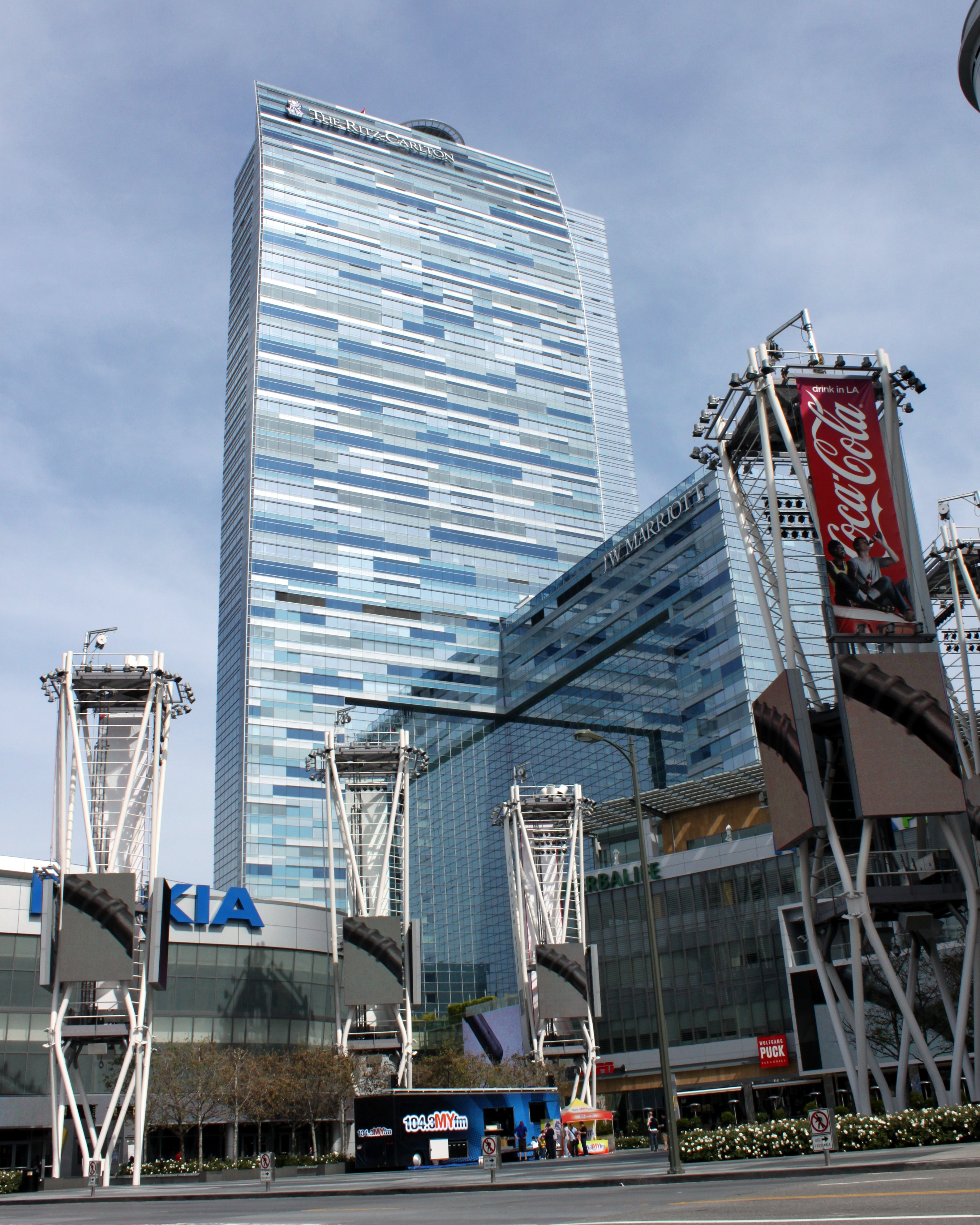 View from Nokia Theater Plaza. Down Town Los Angeles, California